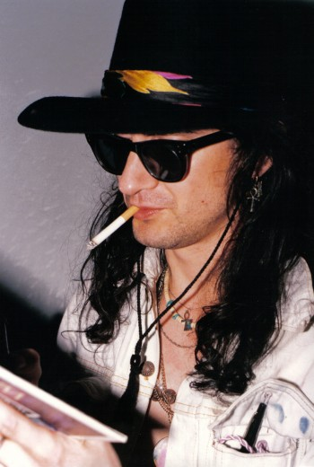 Subject: Wayne Hussey of The Mission Date: May, 1987 Place: Downstairs at Wolfgang's (nightclub) in San Francisco, California, USA Photographer: Andwhatsnext Original 35mm photograph scanned Credit: Copyright (c) 1987 by Nancy J Price